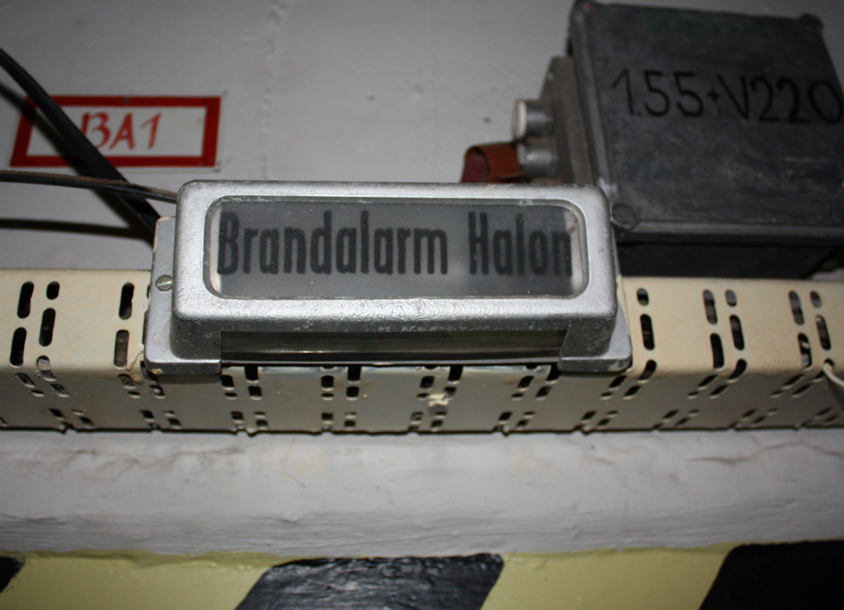 Alarm display for halon extinguishing systems